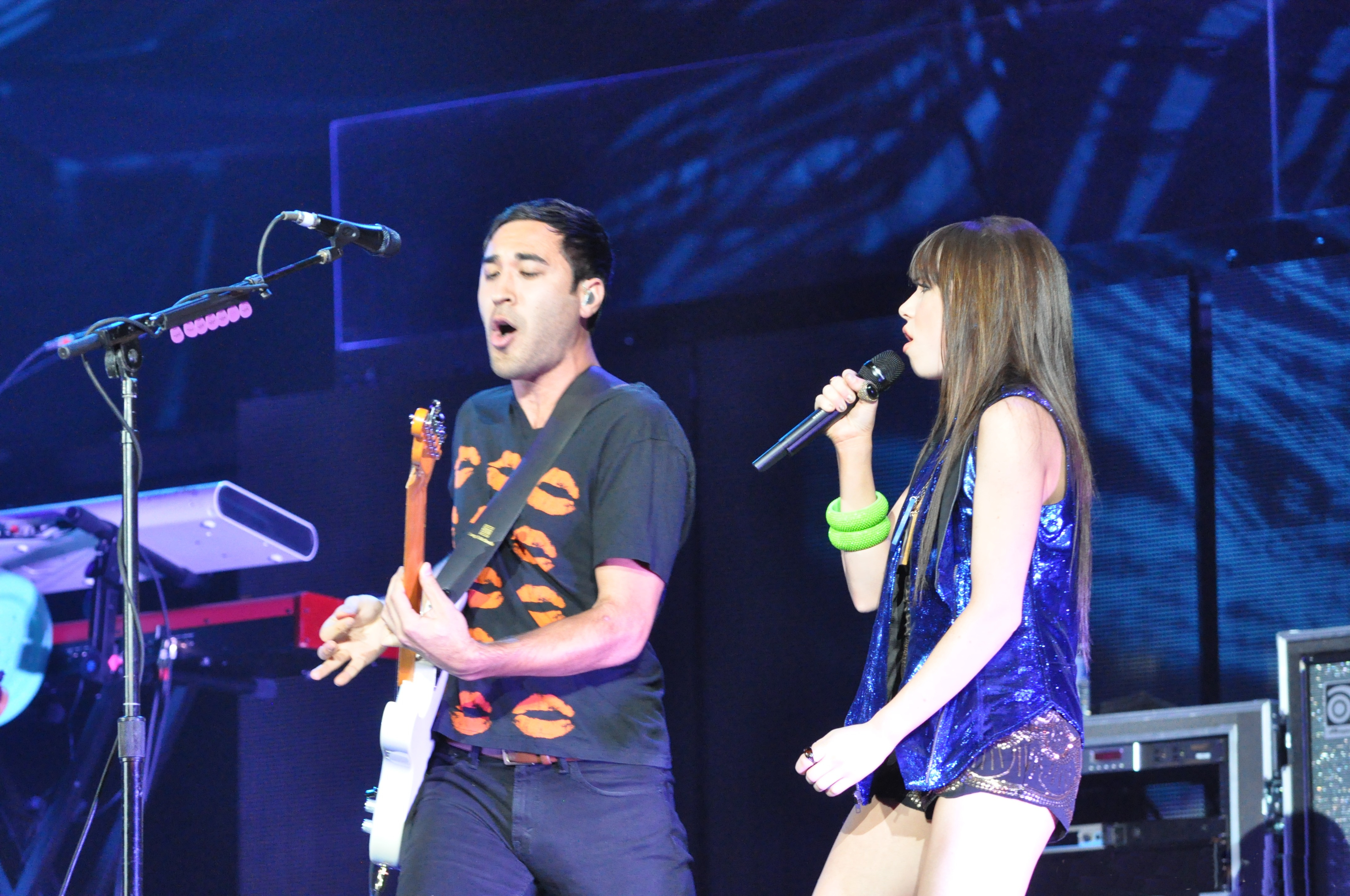 Carly Rae Jepson-DSC_0139-10.20.12